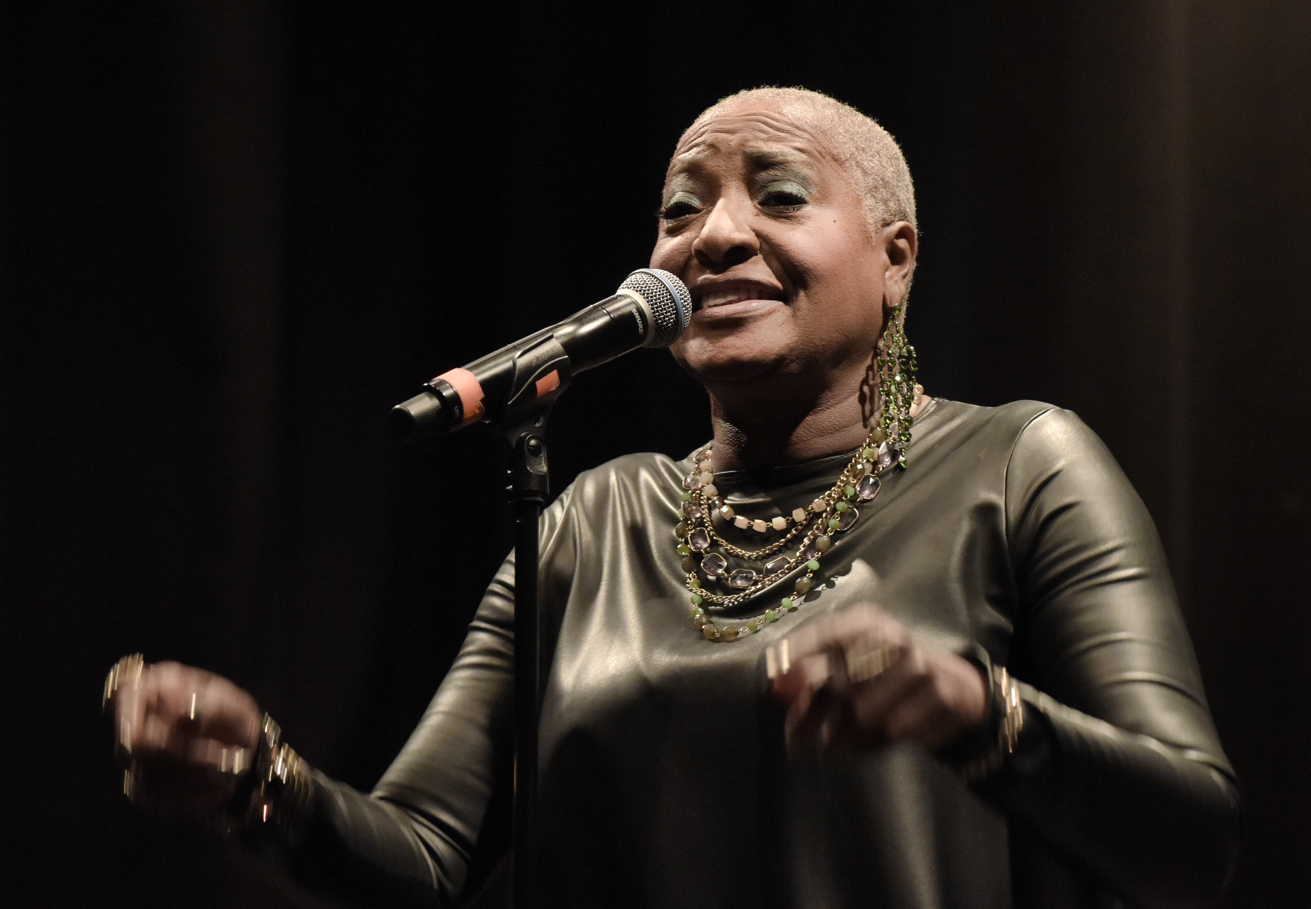 Martha High & The Soul Cookers at Cosmopolite in Soria Moria. The concert took place on 24. November 2017 in Oslo. Lineup: Martha High (vocal and organ), Eric Wakenius (guitar / vocal), Leonardo Corradi (organ) and Tony Match (drums).